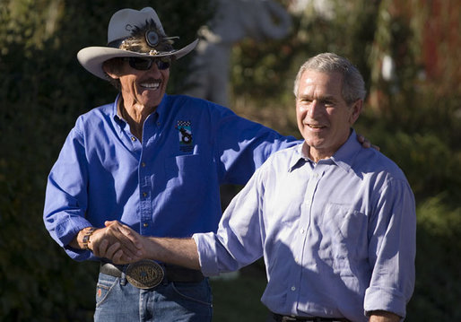 American NASCAR drive Richard Petty meeting George W. Bush at the Victory Junction Gang Camp, Inc., in Randleman, N.C.